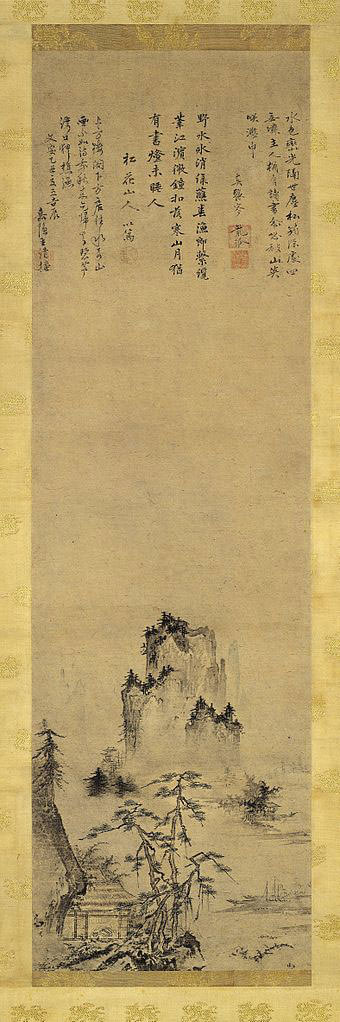 Hanging scroll. Ink and light color on paper. 108.0cm x 32.7cm. National Treasure.